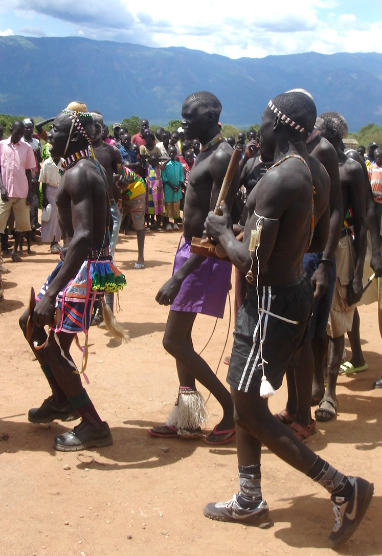 Original caption states, " Sudan: Disseminating the Peace — Sudan residents of Kapoeta, Eastern Equatoria, do a traditional peace dance at a rally where the Comprehensive Peace Agreement text was distributed. In present-day Eastern Equatoria state, South Sudan. Eighteen months after the agreement that ended Sudan's two-decade civil war had been signed, few Sudanese knew its details. That began to change in April and May 2006, when USAID launched an initiative to help more than 150,000 people in five Southern Sudanese states access details of the agreement and participate more fully in implementing the peace. Documents in Arabic and English were distributed to all government officials in the south, and an official summary was developed and published in English and Arabic. The Sudan Radio Service created audio versions of the summary in seven languages — Moro, Arabic, simple Arabic, Toposa, Shilluk, Dinka, and Nuer — and the Sudan Mirror published 22,000 summaries to be included as supplements in its Easter edition."